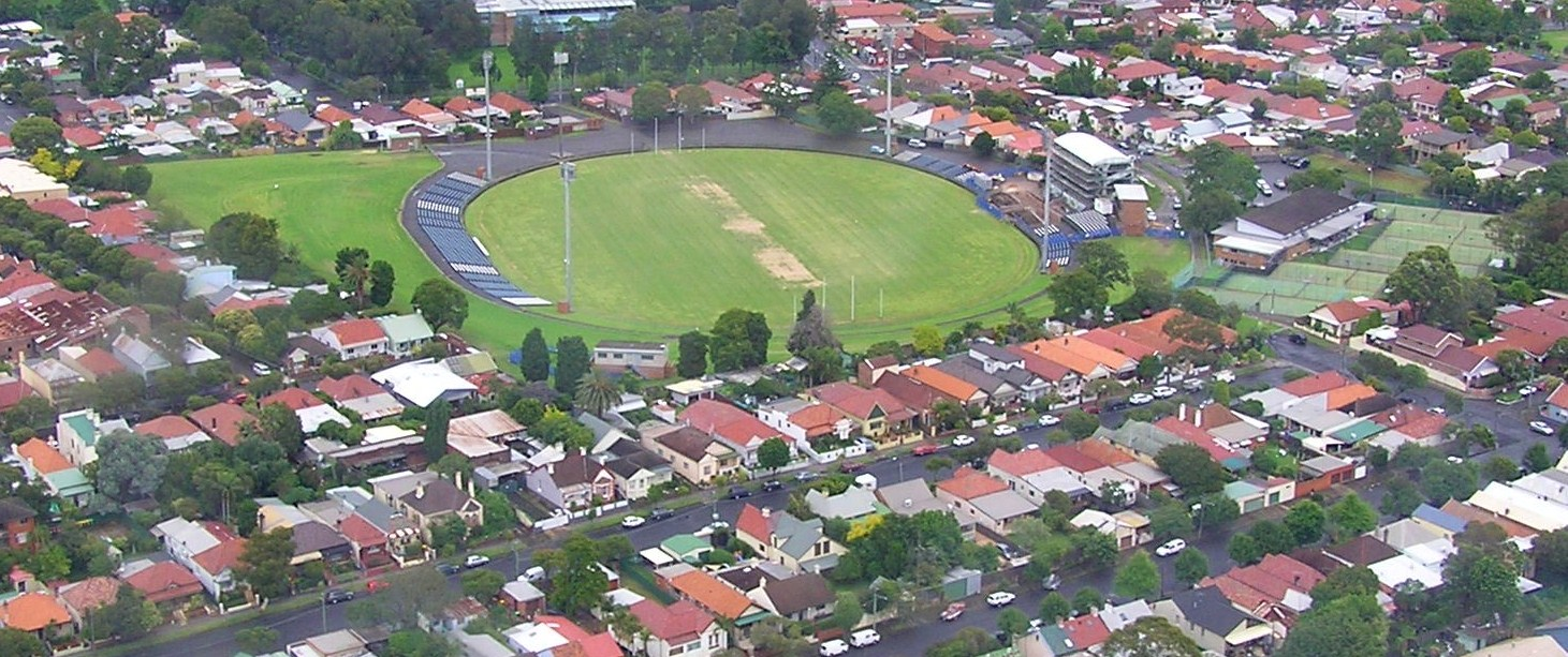 Henson Park Marrickville Sydney aerial photo